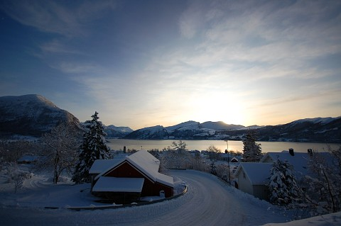 Volda, Norway, in Winter